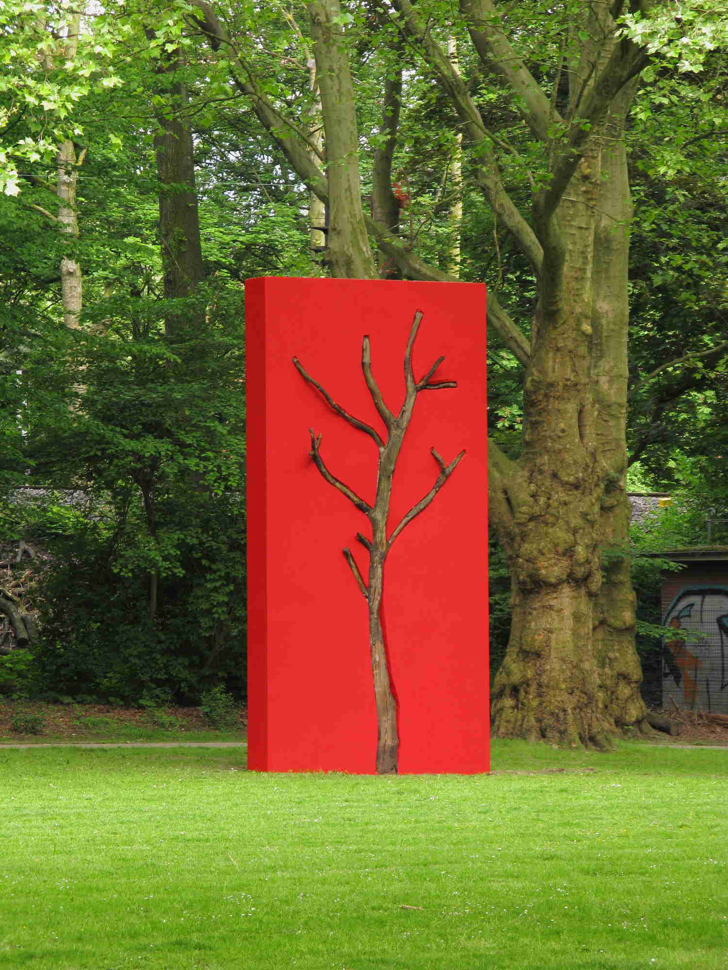 Gloria Friedmann (* 1950): sculpture "Denkmal / Monument", 1990, dead tree - set into a concrete wall; location: sculpture ensemble at the Moltkeplatz in Essen, Germany